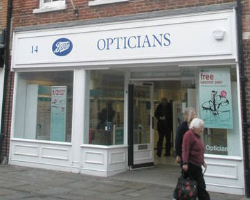 Boots Opticians in North Street